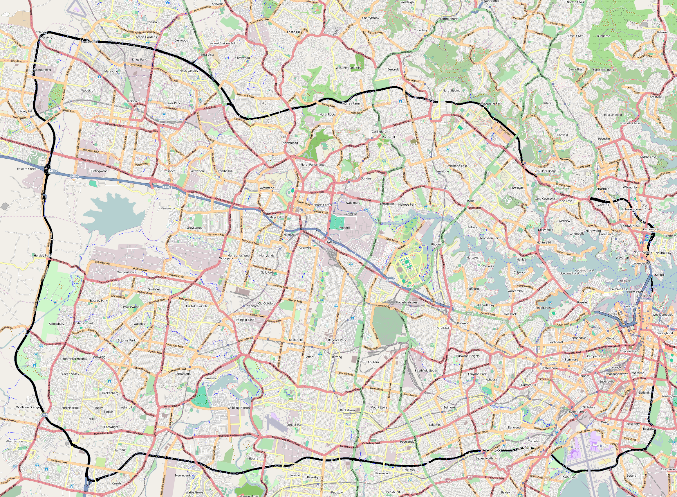 Mapnik export of Sydney Orbital area, edited in GIMP to show Sydney Orbital with heavy black line.